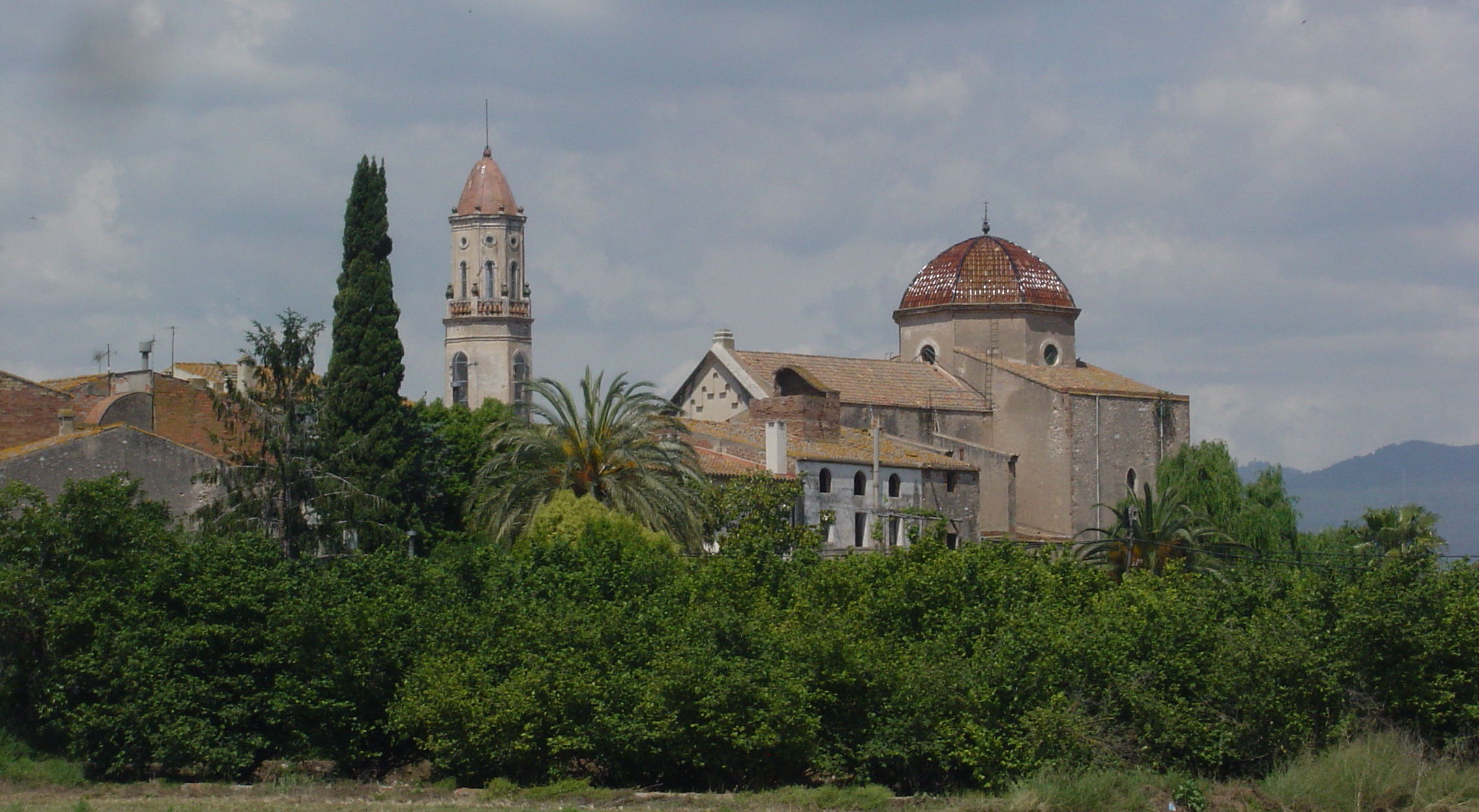 La Masó and its unattached bell tower